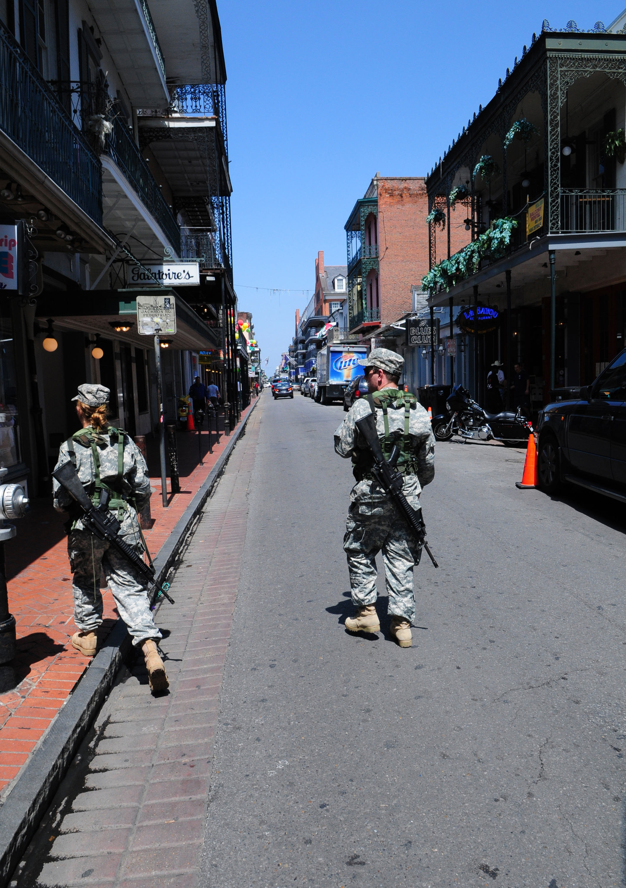 New Orleans, LA, September 5, 2008 -- The Louisiana Army National Guard on patrol in New Orleans. Security and order throughout the area struck by Hurricane Gustav has been well maintained. Barry Bahler/FEMA